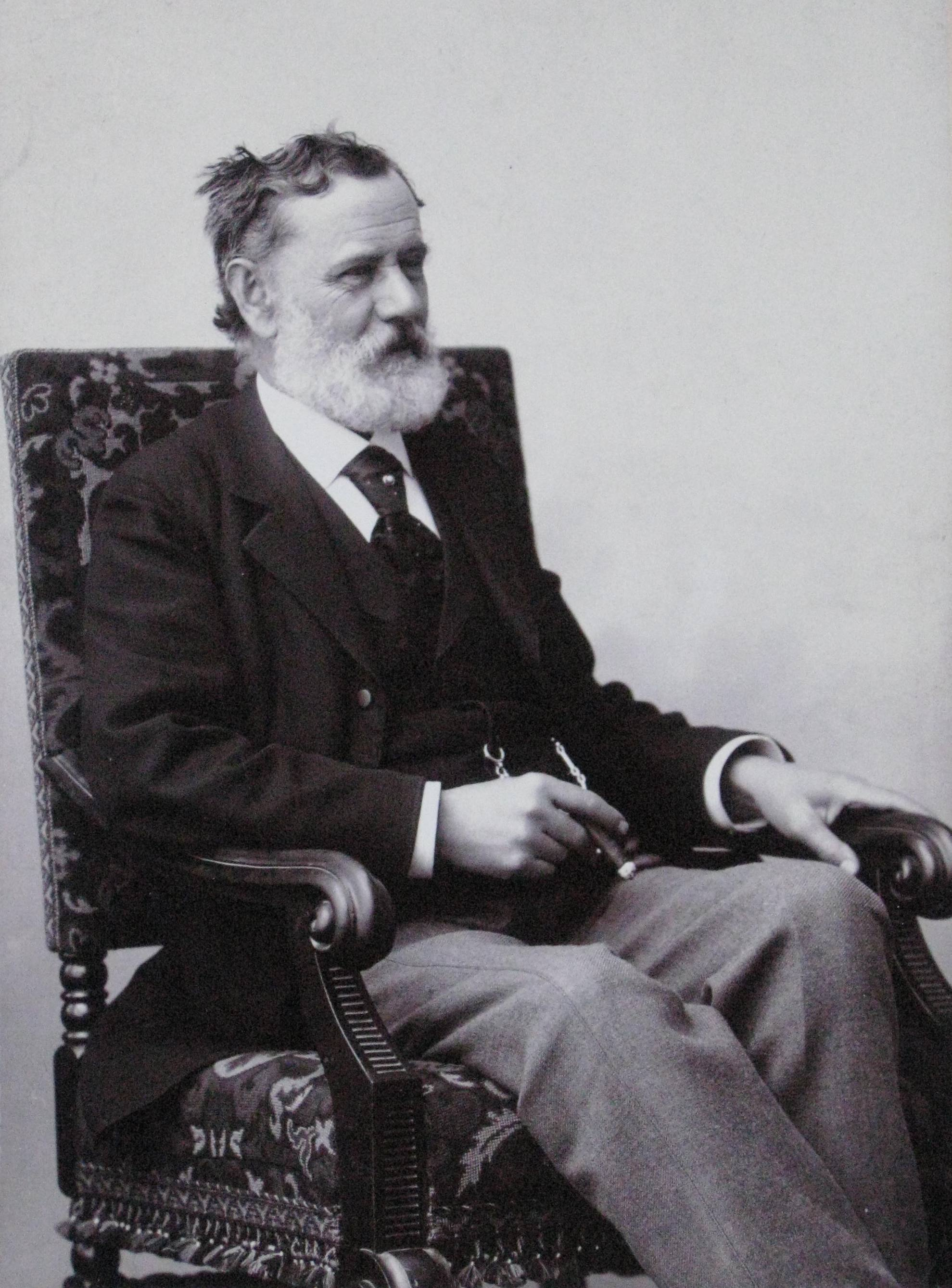 Photography of Heinrich Bank by Leopold Bude approximately 1905